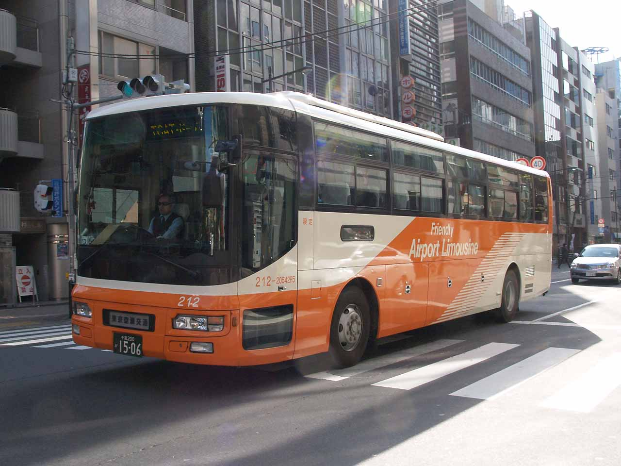 Early 2000s fleet of Airport Transport Service (Tokyo Kuko Kotsu: Airport Limousine bus). Model: Nissan Diesel Space Arrow KL-RA552RBN + FHI 1M body License plate: CBC200KA1506 Place: Misakicho, Chiyoda ward, Tokyo Japan 東京空港交通の日産ディーゼルスペースアロー。2000年代初期は富士重工業製ボディを採用していた。 登録番号：千葉200か1506 所属：成田事業所 撮影地：東京都千代田区三崎町・JR水道橋駅付近